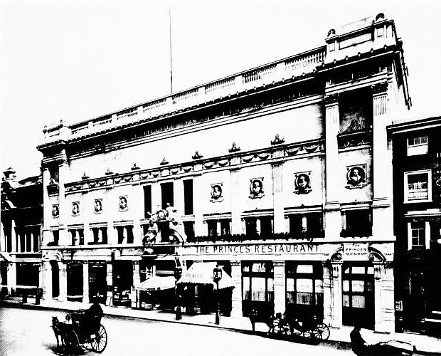 Royal Institute of Painters in Water Colours at Piccadilly